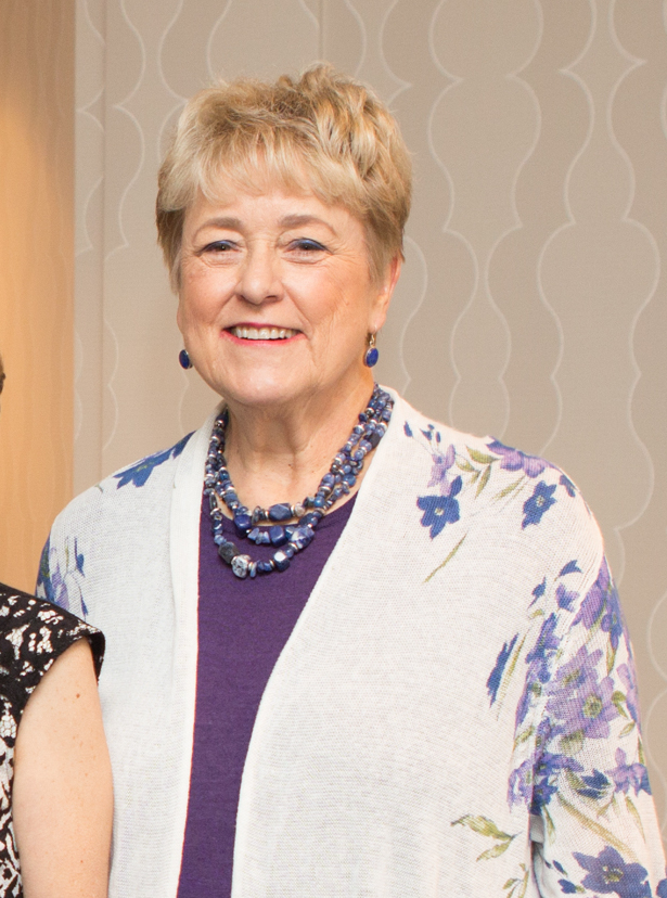 4 June 2015 – Washington, DC – U.S. Secretary of Labor Thomas Perez addresses the National Partnership for Women & Families Annual Luncheon. Judy Lichtman, Senior Advisor, National Partnership for Women & Families, Debra Ness, President, National Partnership for Women, and Ellen Malcolm, Chairwoman, National Partnership for Women and Founder and Chairwoman of EMILY's List. Official Department of Labor Photograph*** Photographs taken by the federal government are generally part of the public domain and may be used, copied and distributed without permission. Unless otherwise noted, photos posted here may be used without the prior permission of the U.S. Department of Labor. Such materials, however, may not be used in a manner that imply any official affiliation with or endorsement of your company, website or publication.